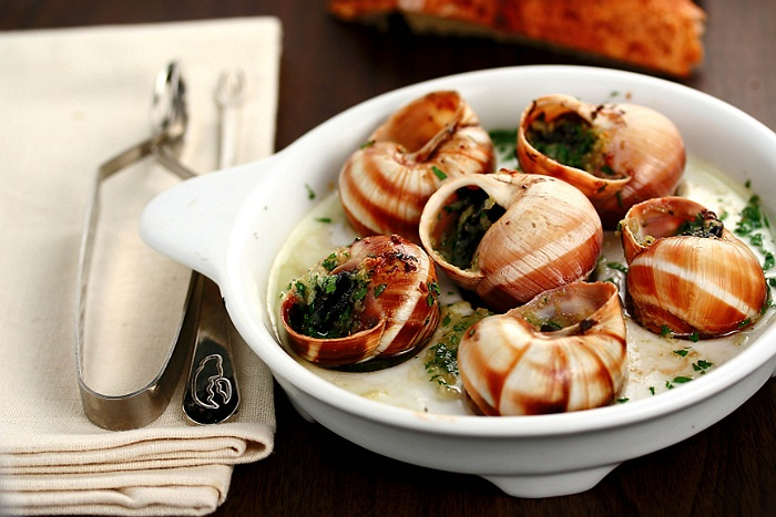 Photo of escargot